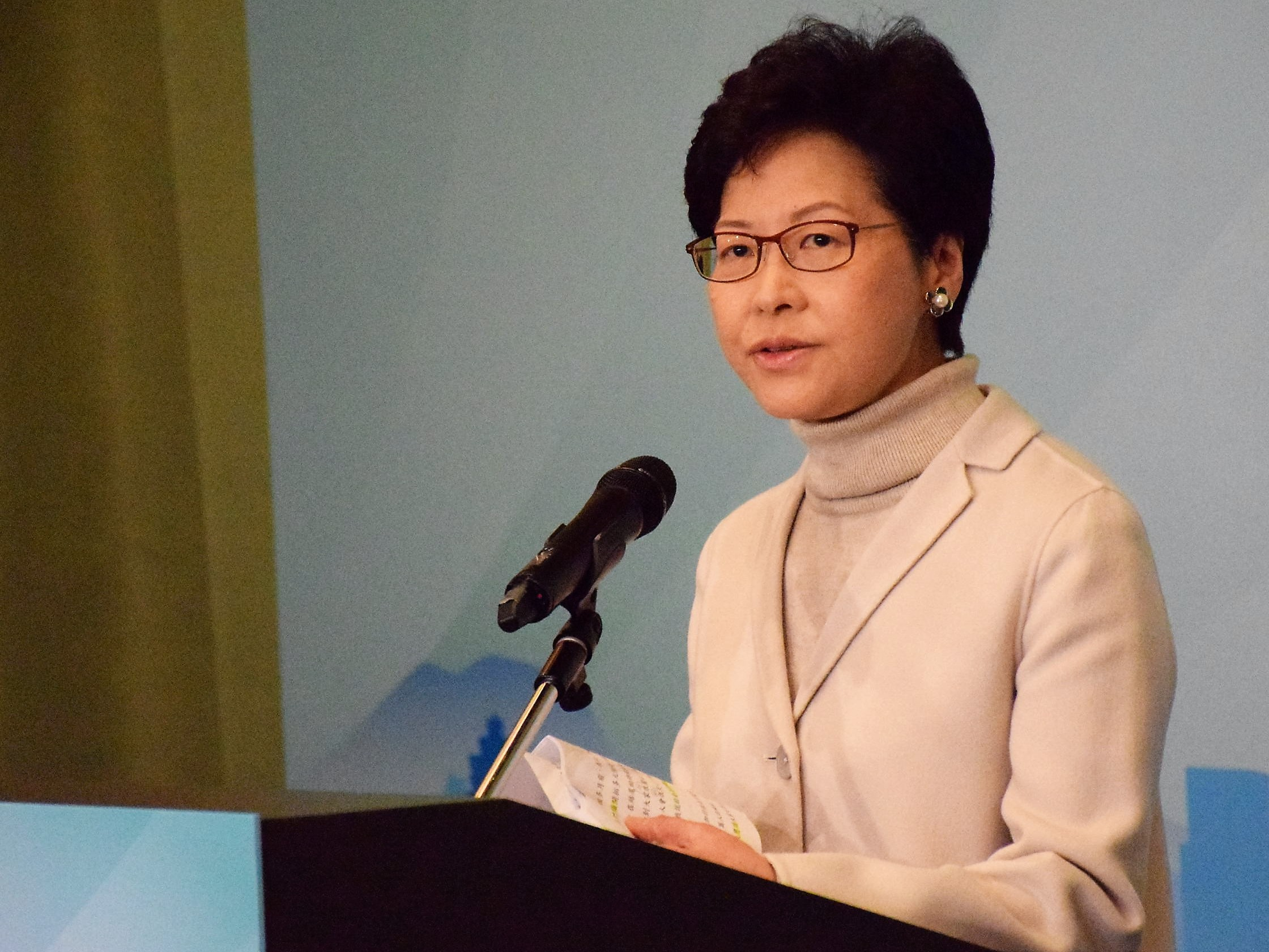 Carrie Lam declares her CE candidacy.